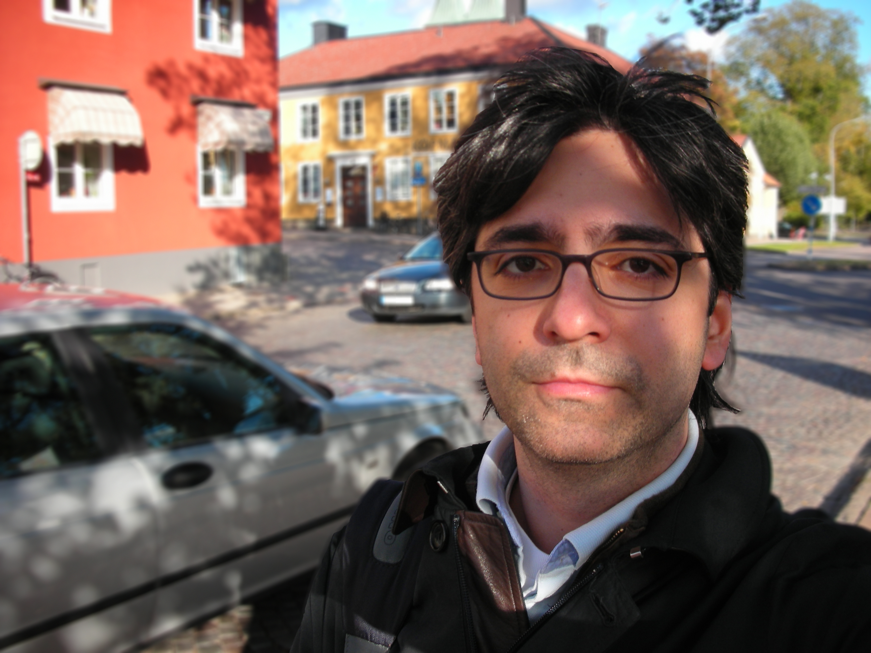 Self-portrait photograph taken by me with my cellphone camera.